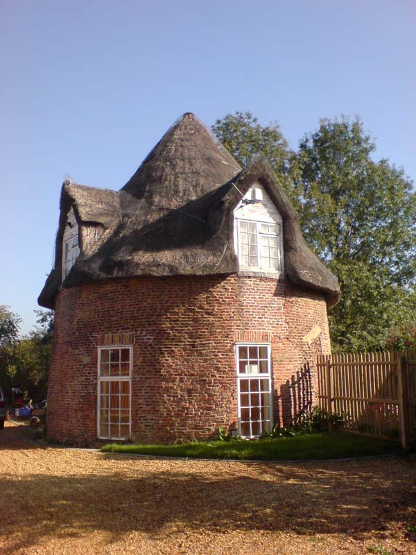 The Round House, Main Street, Little Thetford, Cambridgeshire